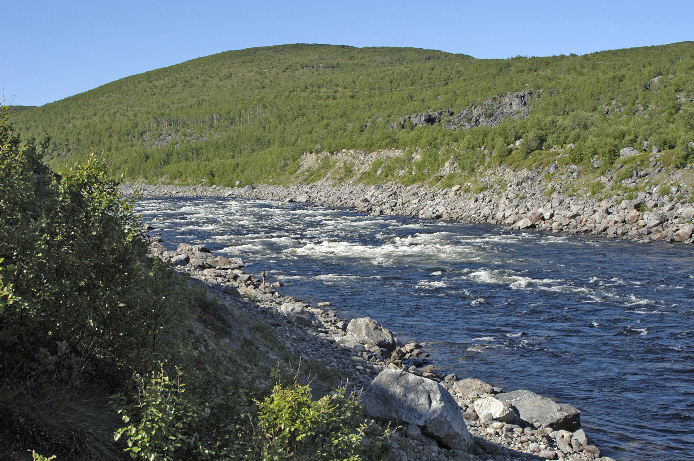 River Teno, Alaköngäs, july 2005